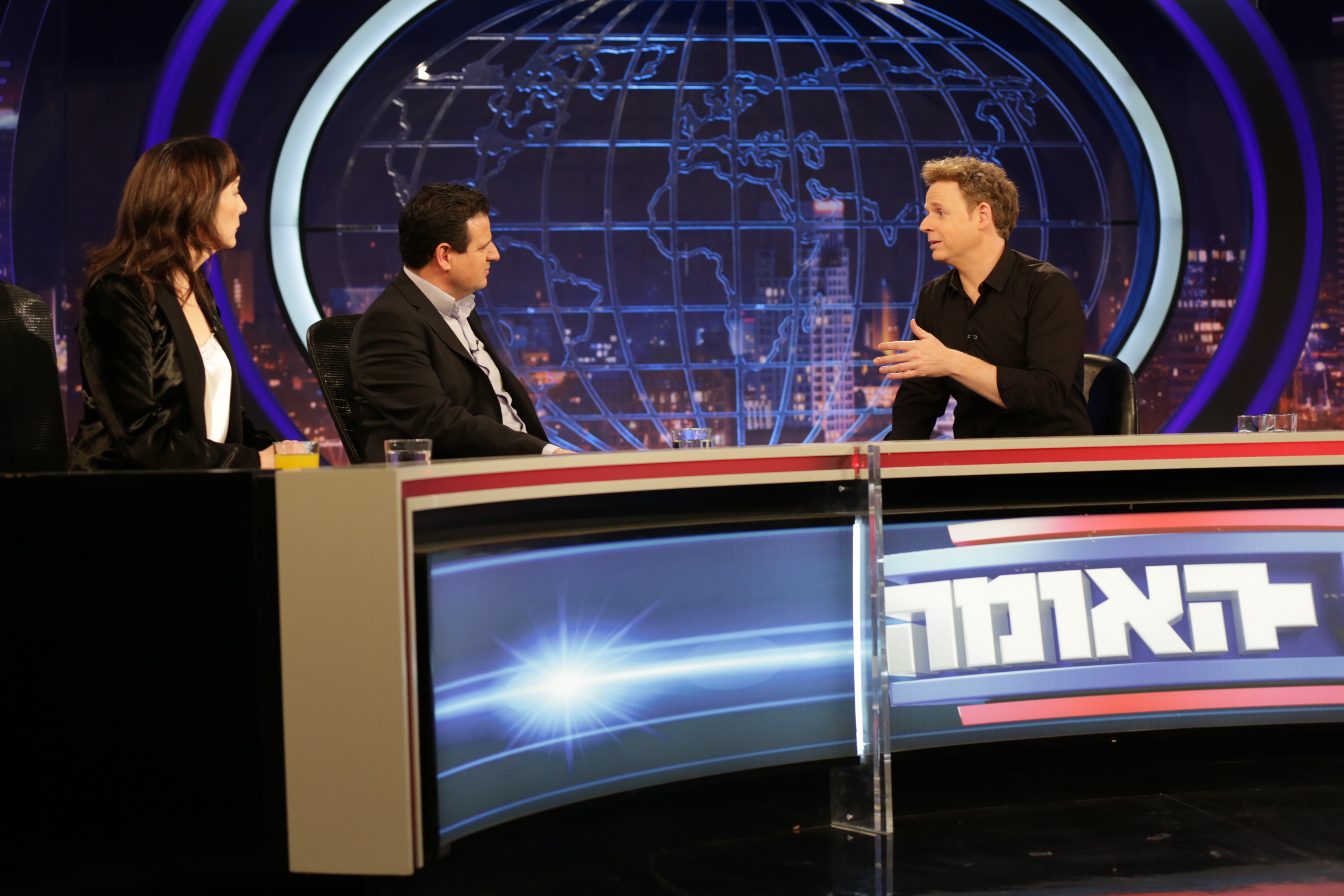 TV presenters Einav Galili (left) and Lior Schleien (right) hosting MK Ayman Odeh (center) on the set of "Gav HaUmah"